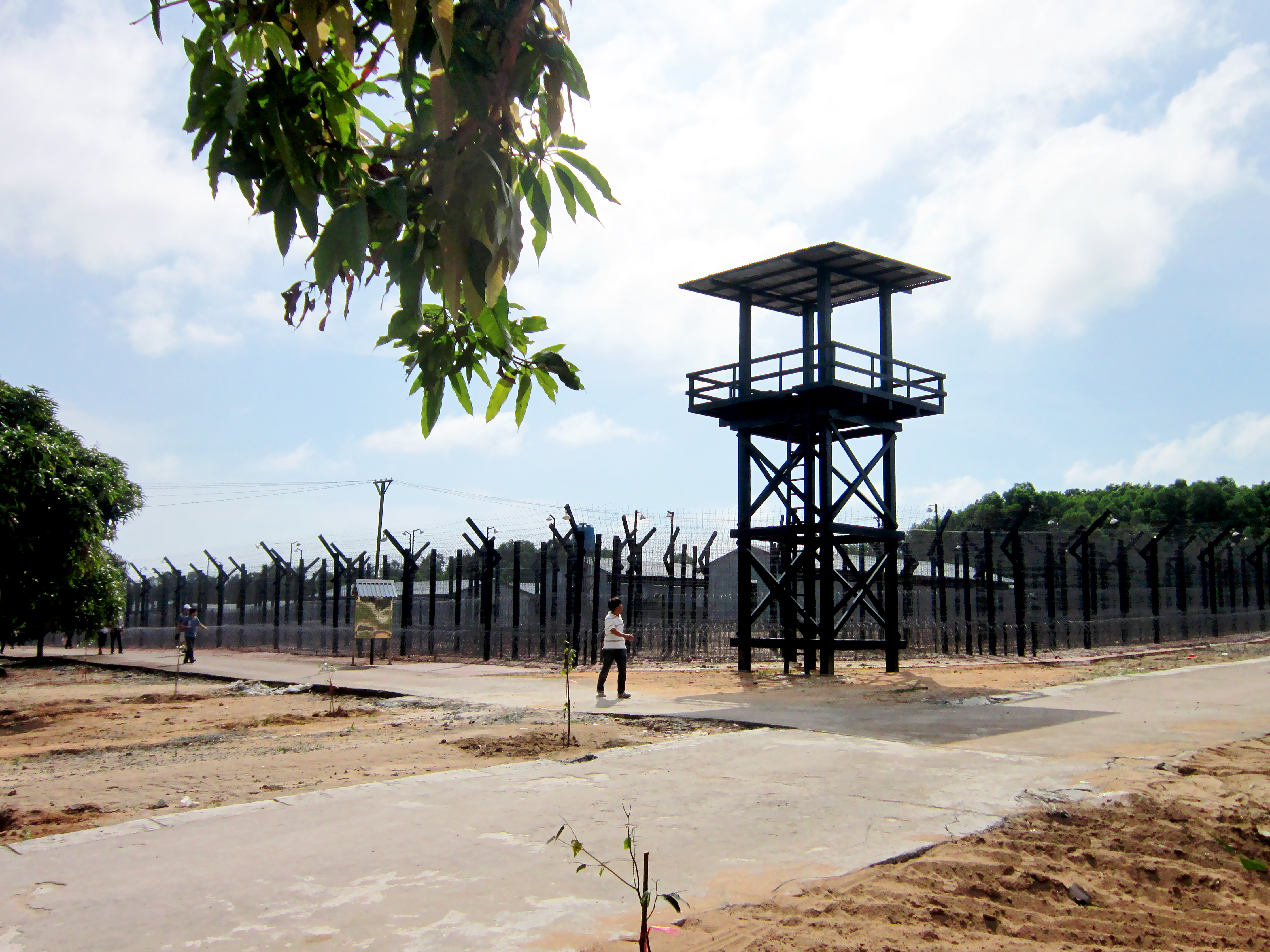 Phu Quoc prison in Phu Quoc (Kien Giang Province, Vietnam). It was reconstructed as a memorial building for visitors.